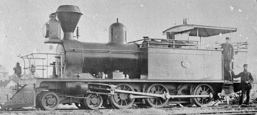 Portrait of a WAGR B class tank locomotive, no. 8, fitted with its original soft coal chimney, somewhere in Western Australia. Most members of the B class, including this one, were built by Kitson & Co, but nos 12, 13 and 14 were built by Dübs & Co.